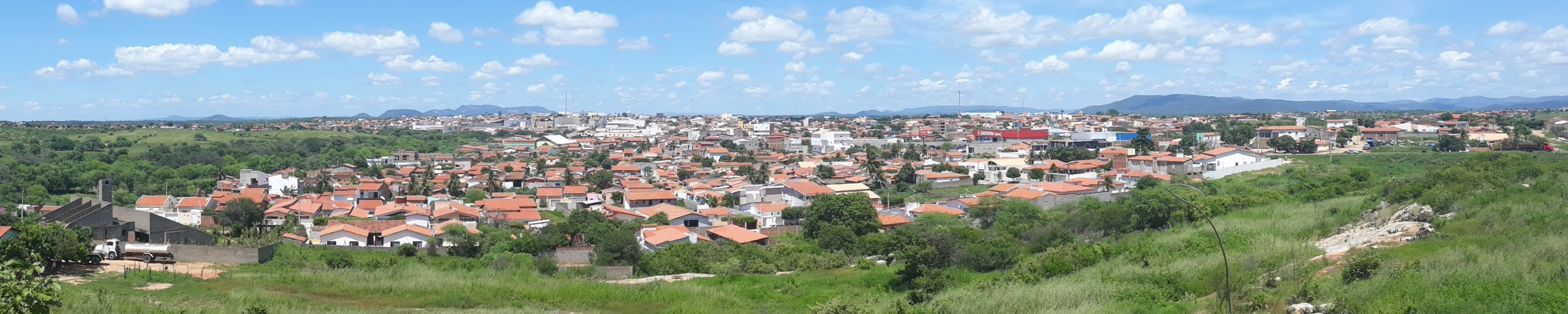 Partial panoramic photograph of Pau dos Ferros, Rio Grande do Norte (Brazil), taken from Hotel Jatobá.